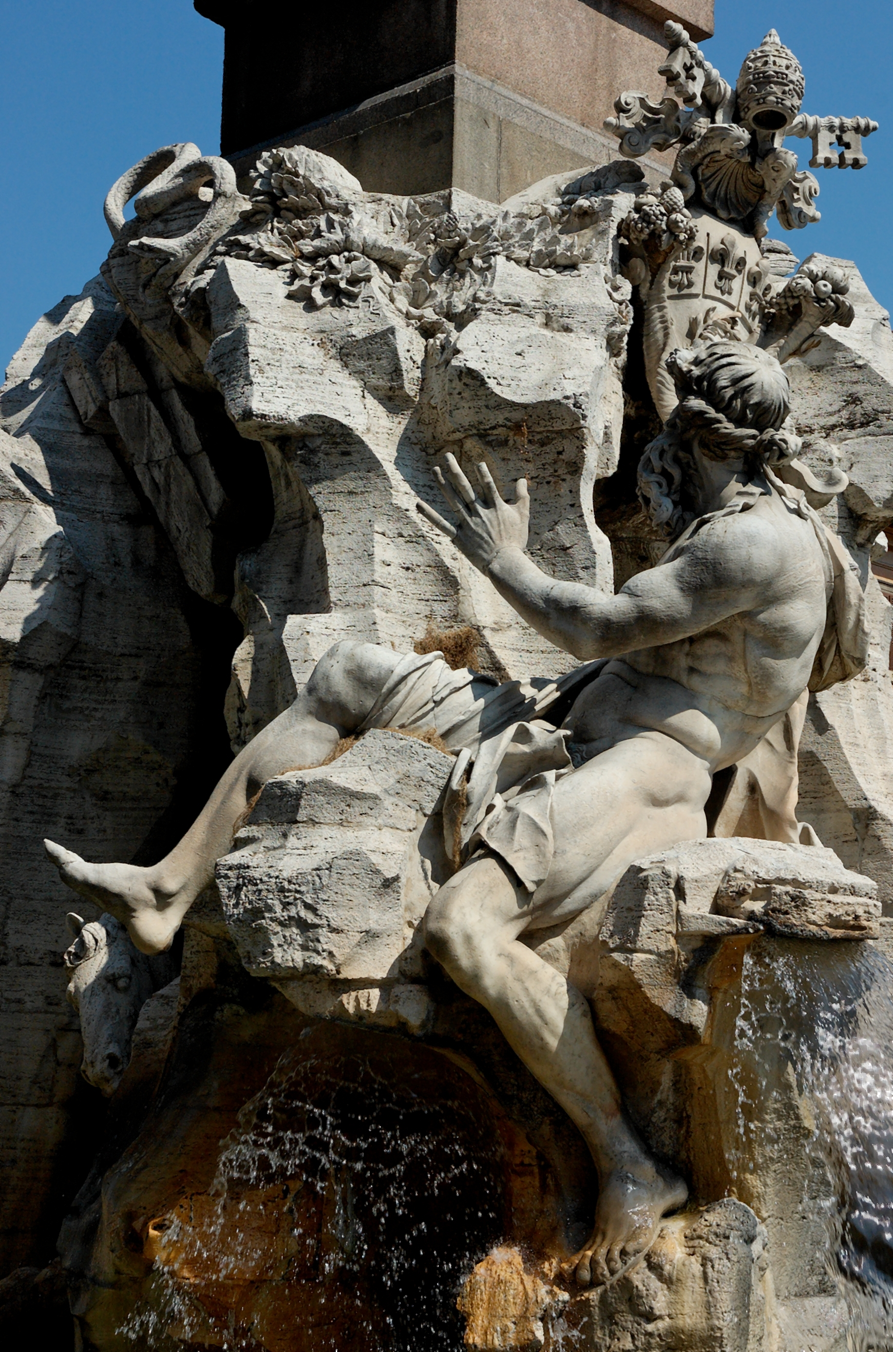 The river-god Danube by Gianlorenzo Bernini (1651), from the Fontana dei Quattro Fiumi in Rome.